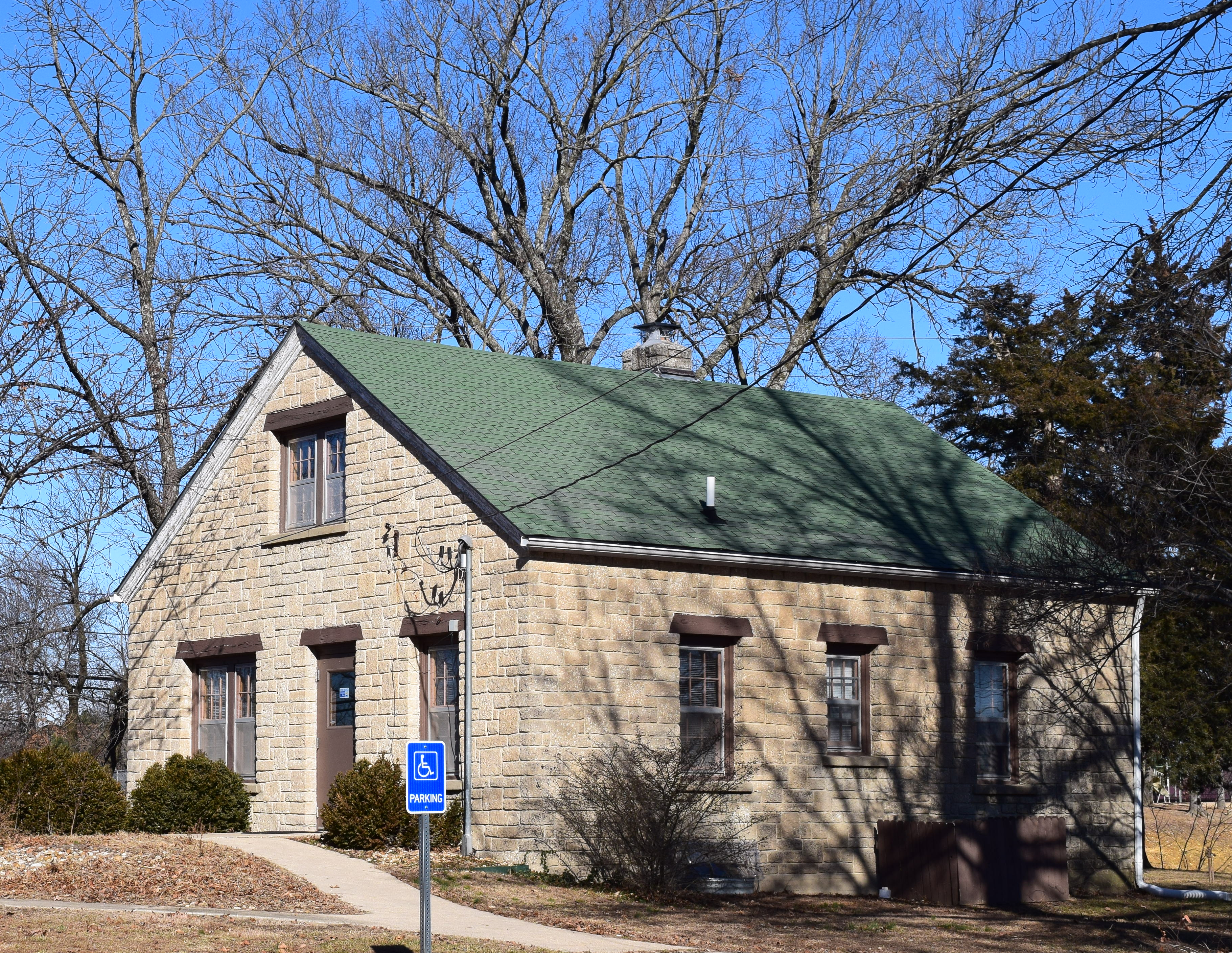 The ranger's office in the Rolla Ranger Station Historic District in Rolla, Missouri. The district is listed on the National Register of Historic Places.